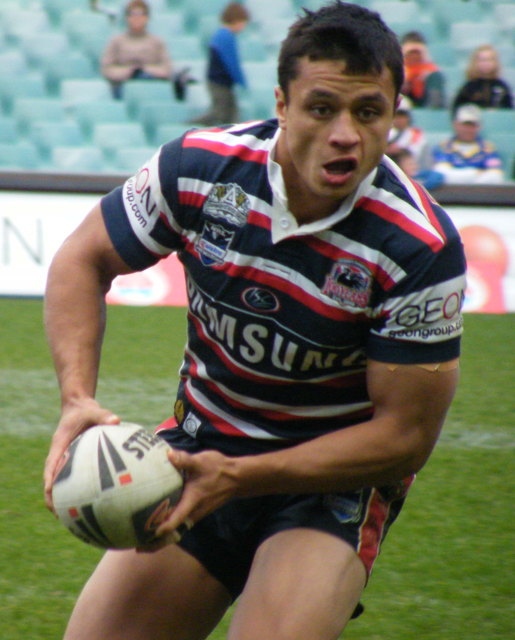 New Zealand International and Sydney Roosters fullback Sam Perrett.